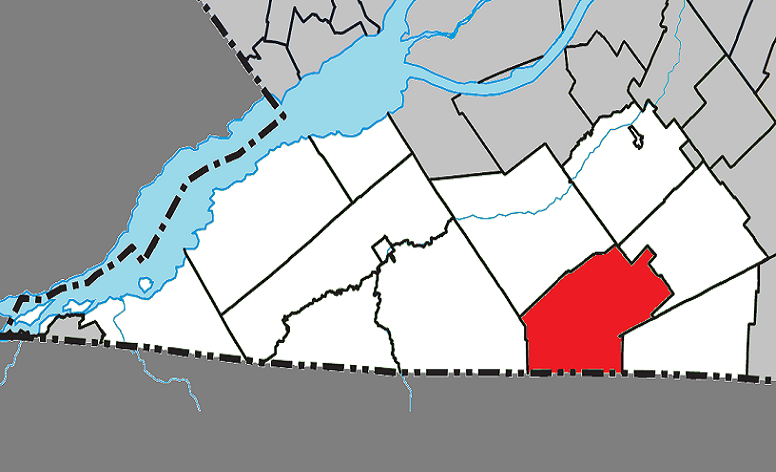 Location of Franklin, Quebec within Le Haut-Saint-Laurent Regional County Municipality.